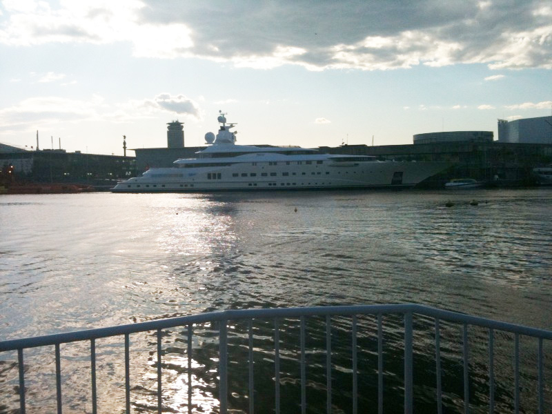 The yach Pelorus seen at Barcelona port